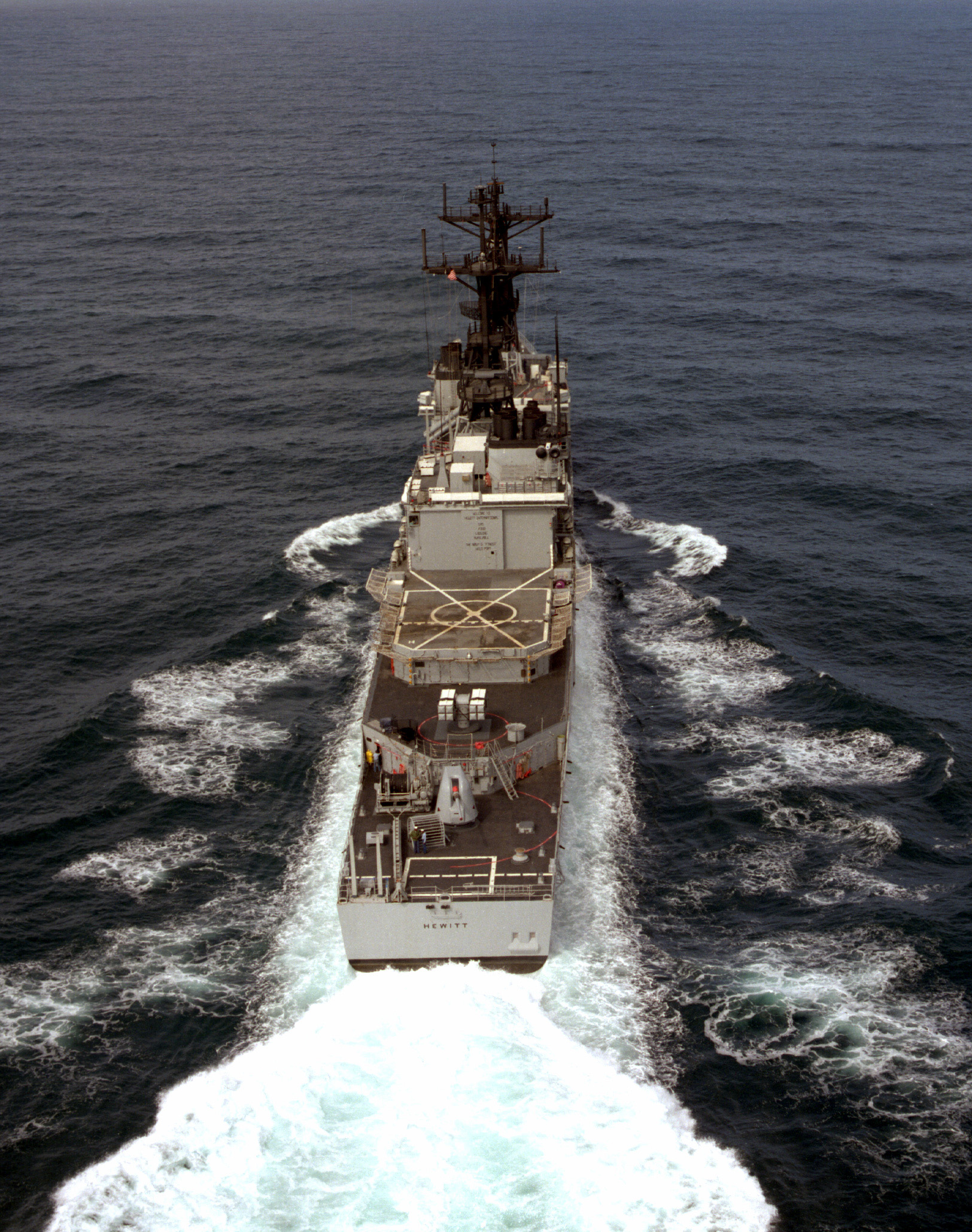 A stern view of the destroyer USS HEWITT (DD-966) underway.